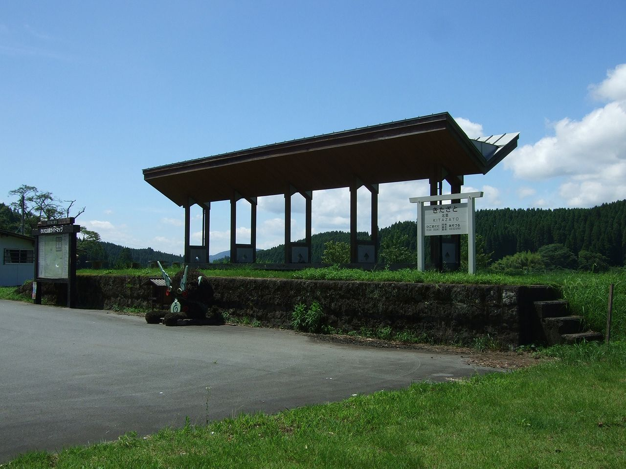 Kitazato Ekiato Park, the monument of Miyanoharu Line Kitazato Station, Oguni Town, Kumamoto, Japan.